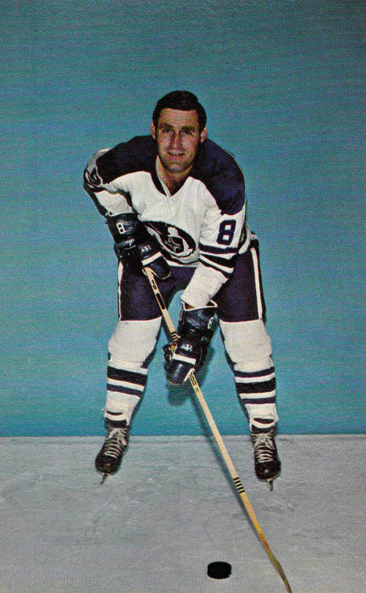 Postcard photo of Wayne Hillman as a member of the Cleveland Crusaders.